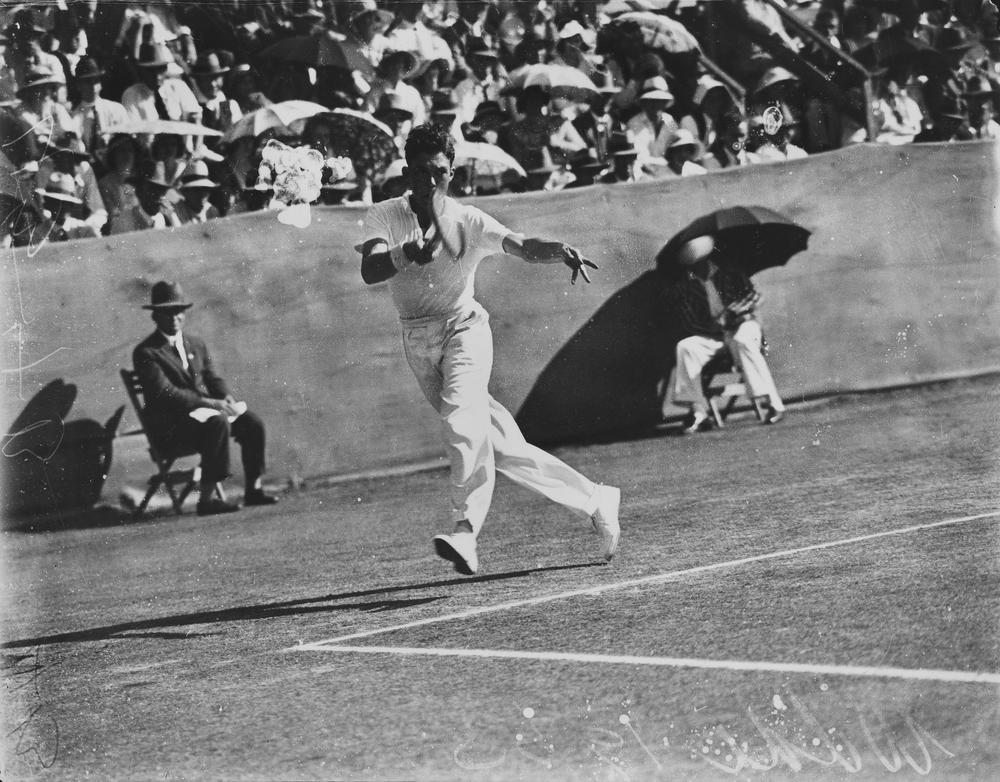 Englishman Frank Wilde hits a forehand against an Australian opponent at Milton, 1933